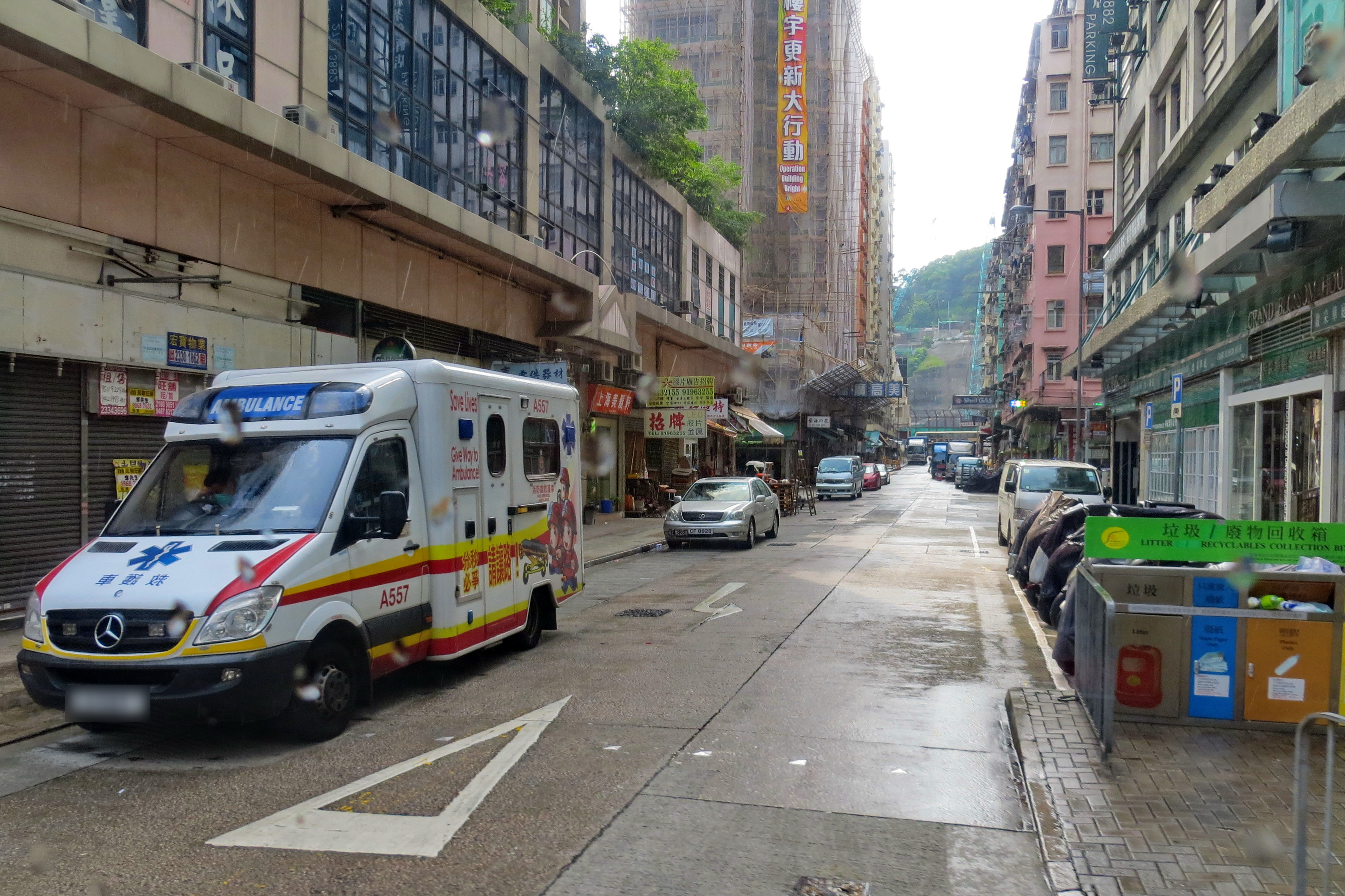 Bulkeley Street, viewing from Gillies Avenue South, Kowloon, Hong Kong.